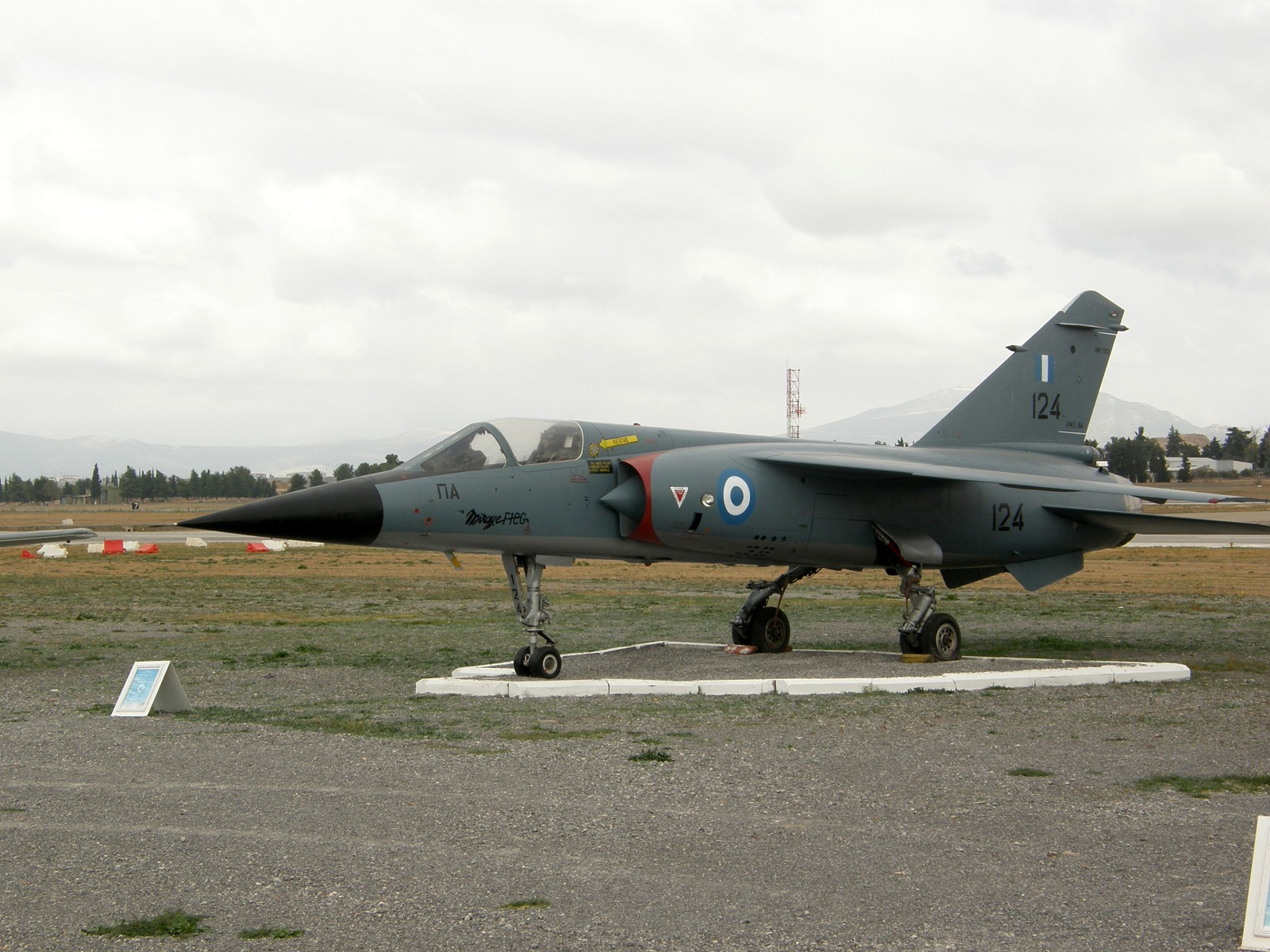 Preserved Mirage F1CG aircraft of the Hellenic Air Force on display at 114 Combat Wing, Tanagra, Greece.